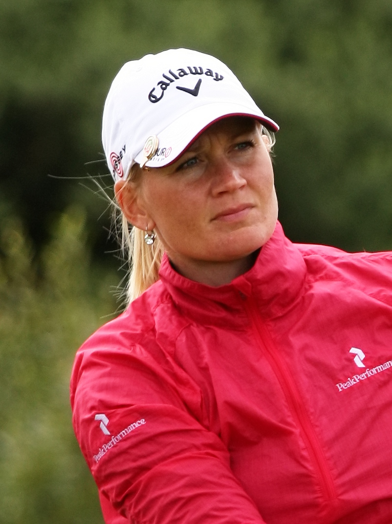 SOUTHPORT, UNITED KINGDOM - JULY 28: Linda Wessberg of Sweden watches her tee shot on the 10th hole during final practice round before 2010 Ricoh Women's British Open held at Royal Birkdale on July 28, 2010 in Southport, England. (Photo by Wojciech Migda)